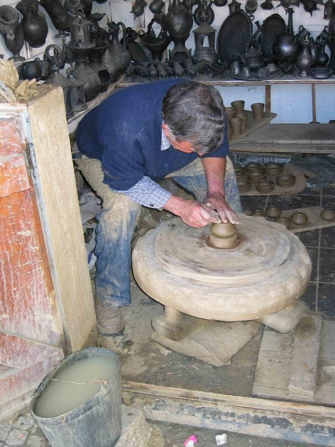 Pottery - Hand made – Bisalhães - Vila Real - Portugal